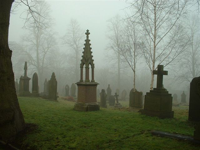 All Hallows Churchyard, Kirkburton The South side of Kirkburton Parish Church on a cold winter morning.